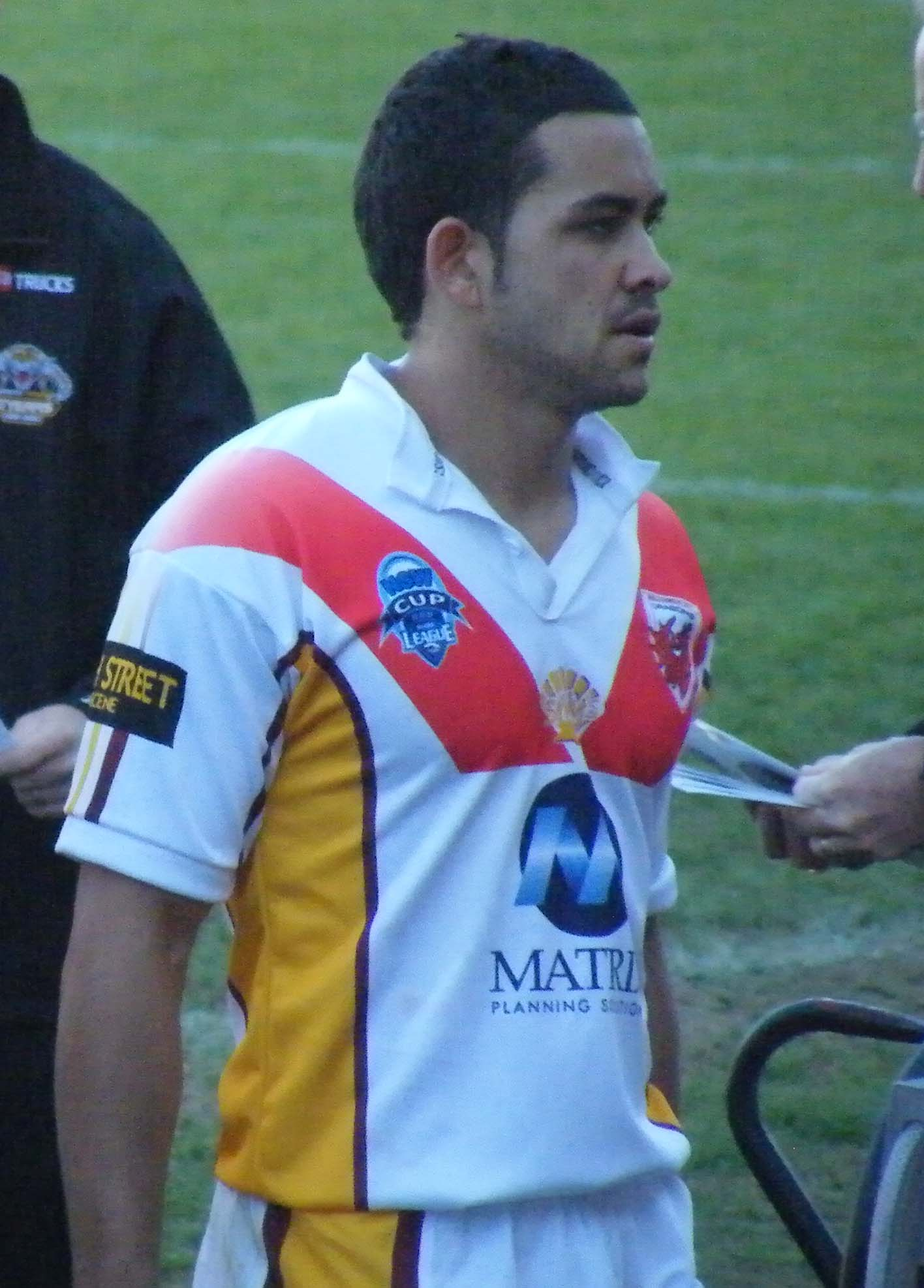 Michael Lett of Shellharbour RLFC